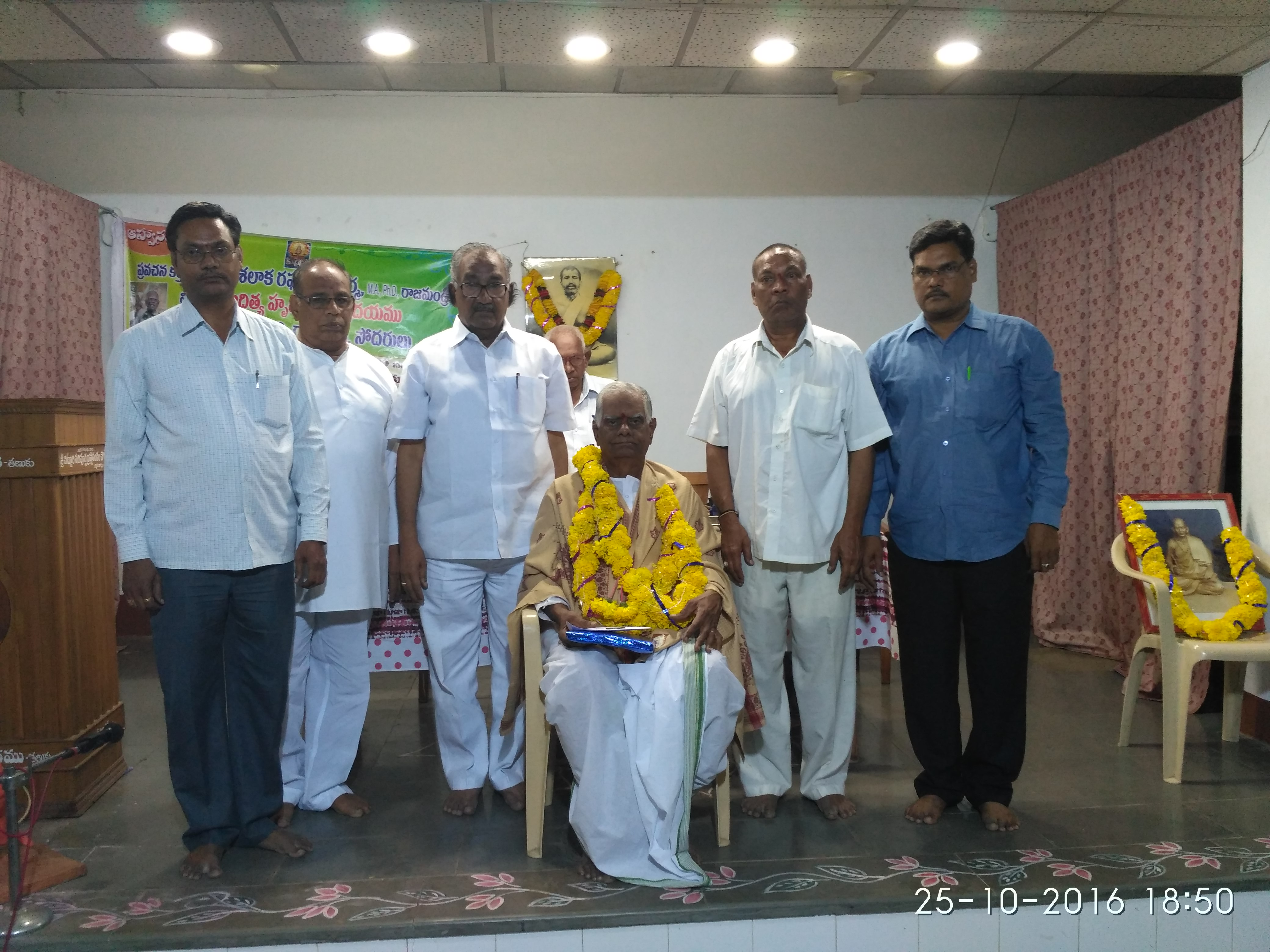 శ్రీ శలాకరఘునాధశర్మగారికి సన్మానం చెసిన ప్పటి చిత్రం